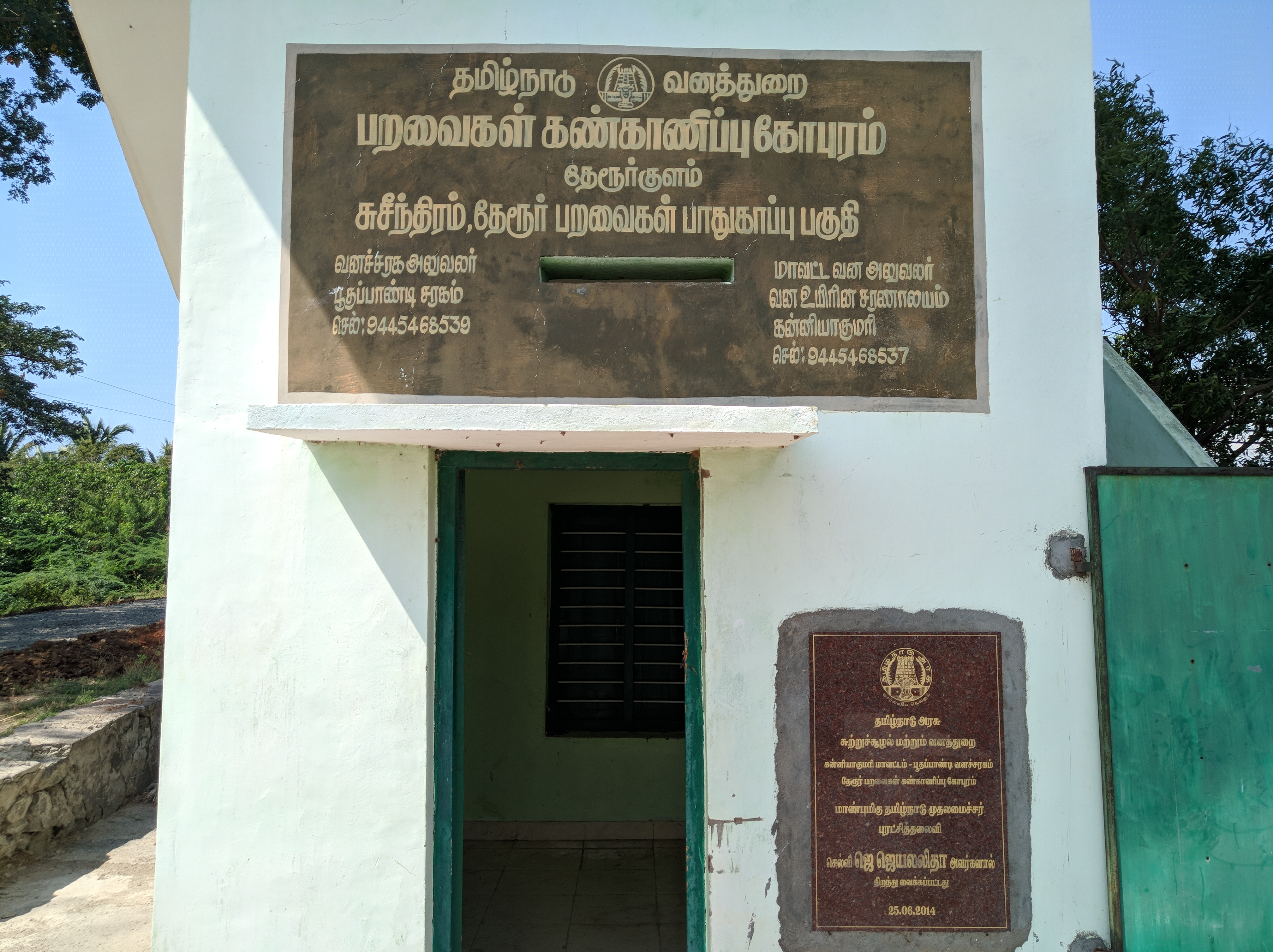 A bird watchtower built by the Forest department, TamilNadu near Suchindram Theroor Lake.